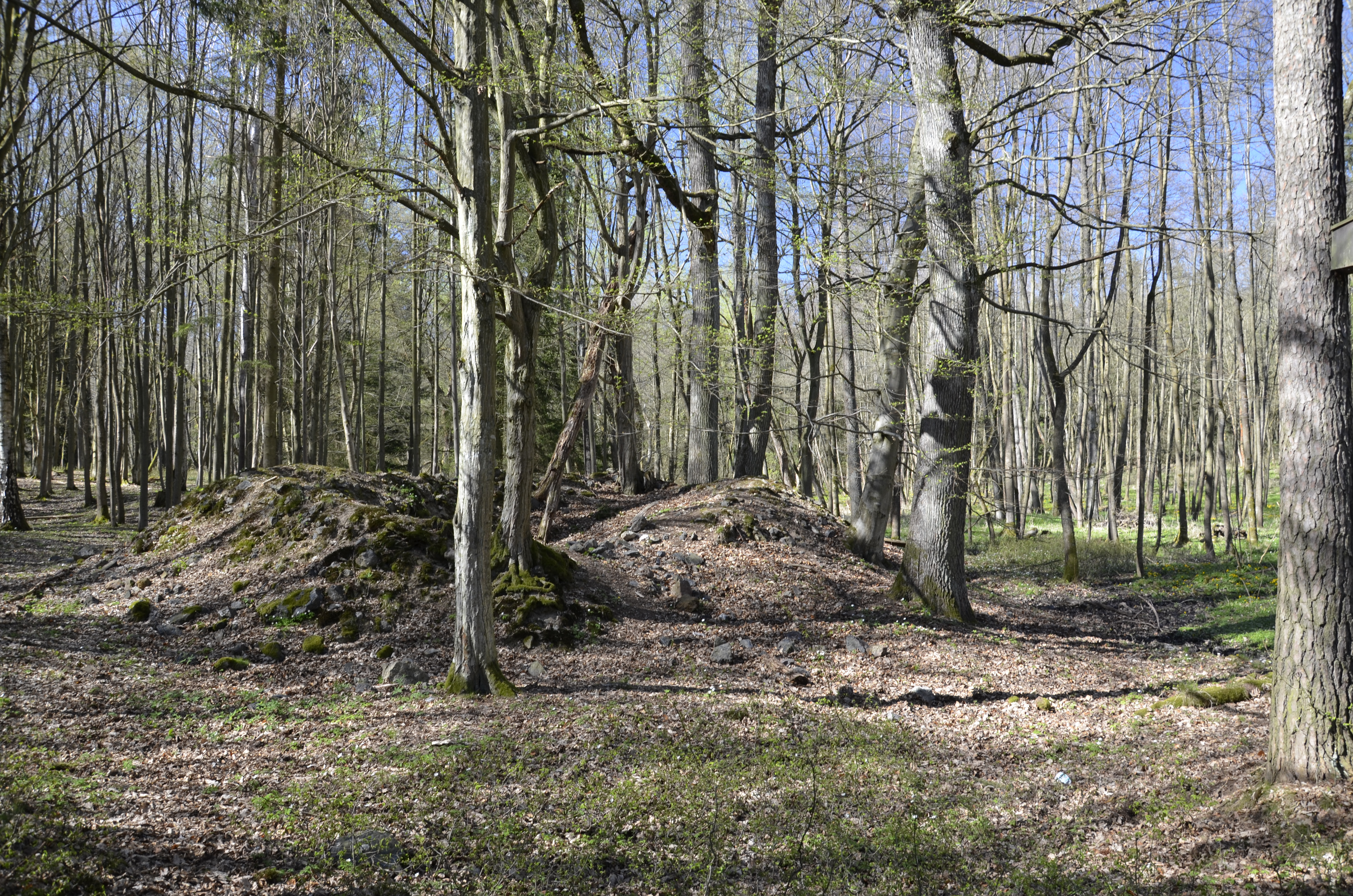 Ruins of castle Mydlná, Pilsen Region, Czechia.